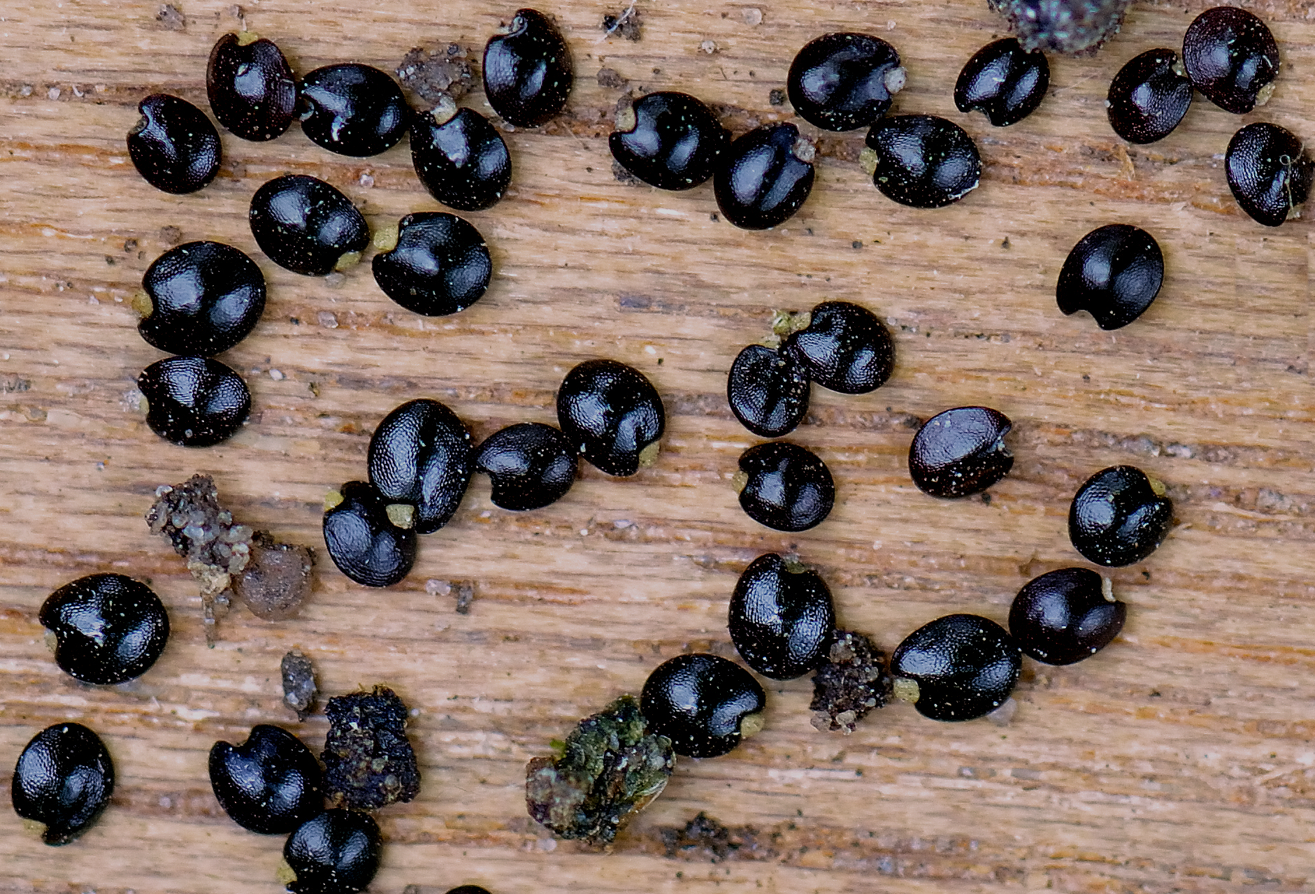 Claytonia perfoliata seeds, length 1-1.5 mm